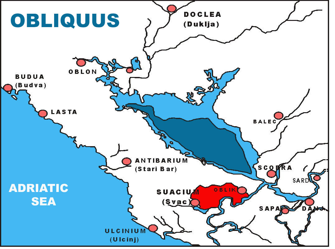 Obliquus district (Dioclia. XI c. AD ( nazivi iz dukljanskog perioda su dati izvorno). Izvor: Karta Dukljanske države, u reprodukciji „Geokarte“ Beograd, 1966. godina, objavljene od strane Redakcije za istoriju Crne Gore – „Istorija Crne Gore“, knjiga 2 – 1967. )